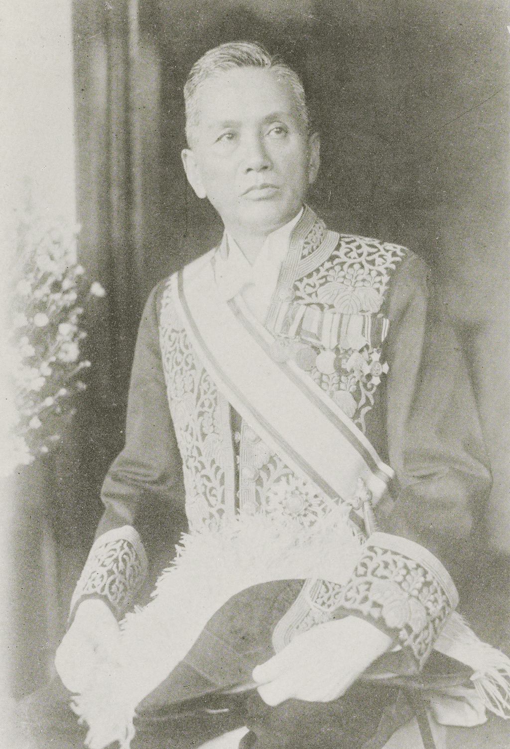 Portrait of Imaida Kiyonori (今井田清徳, 1884 – 1940)